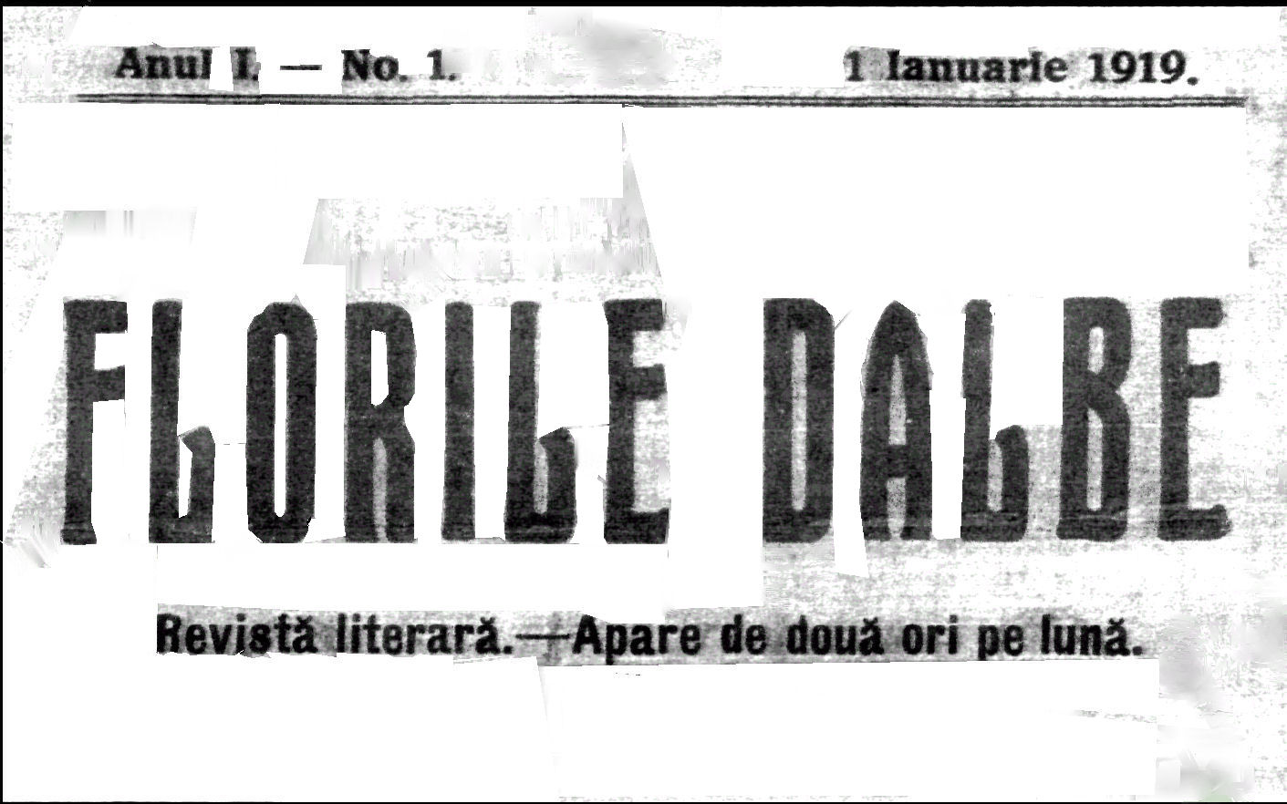 Logo of the Romanian newspaper Florile Dalbe, as used in 1919